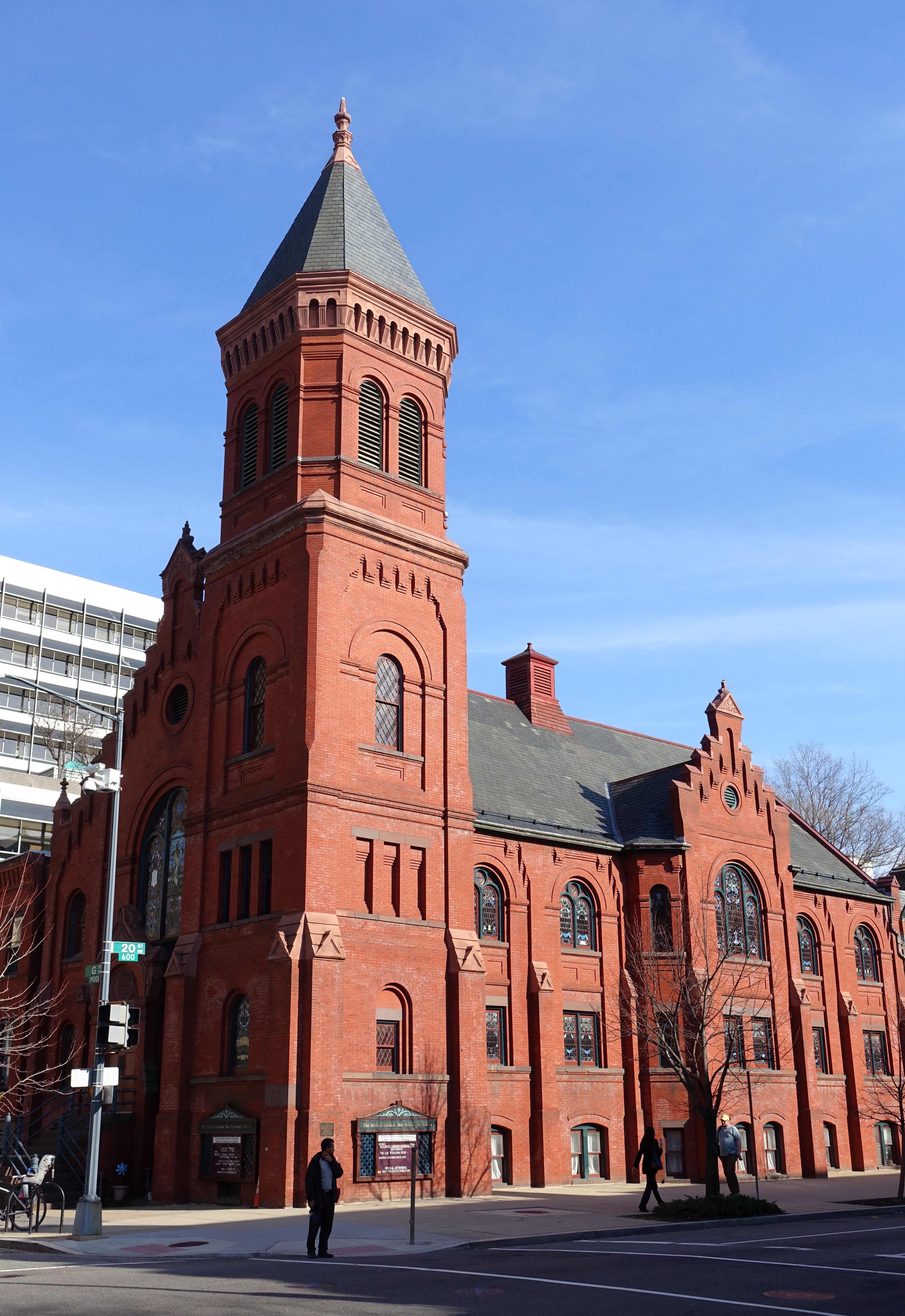 The United Church + Die Vereinigte Kirch (Concordia United Church of Christ) - 1920 G Street Northwest, Washington, DC, USA.